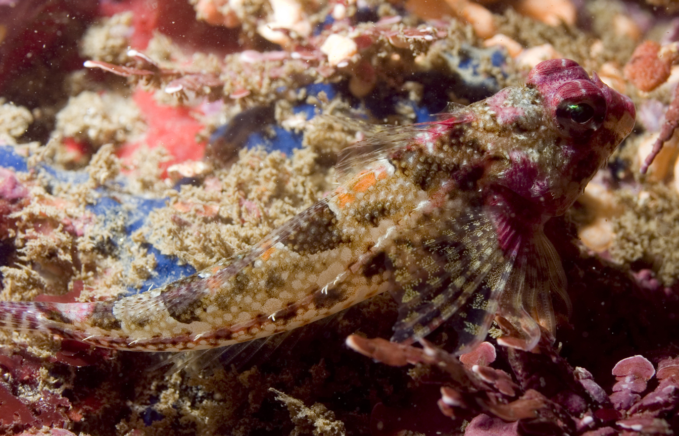 Snubnose sculpin (Orthonopias triacis) resting on its pectoral fins